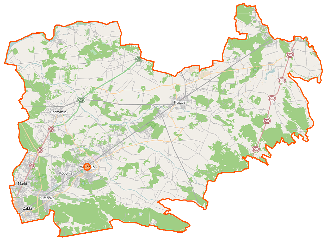 Map of Powiat wołomiński, Poland This map of Powiat wołomiński was created from OpenStreetMap project data, collected by the community. This map may be incomplete, and may contain errors. Don't rely solely on it for navigation. Border coordinates52.561321.0587←↕→21.747452.2501